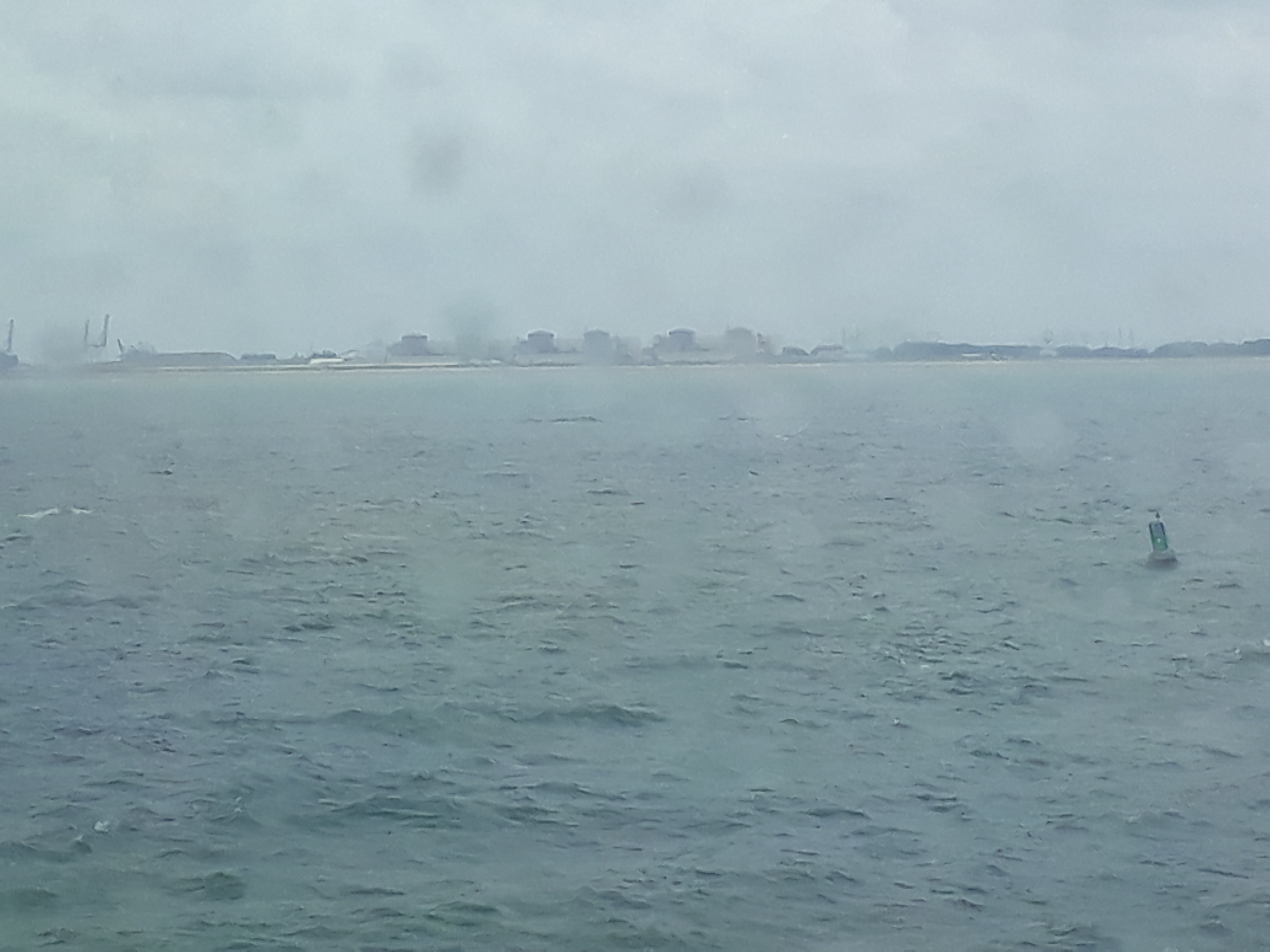 Gravelines Nuclear Power Plant as seen from a ferry running the route Dover-Dunkerque